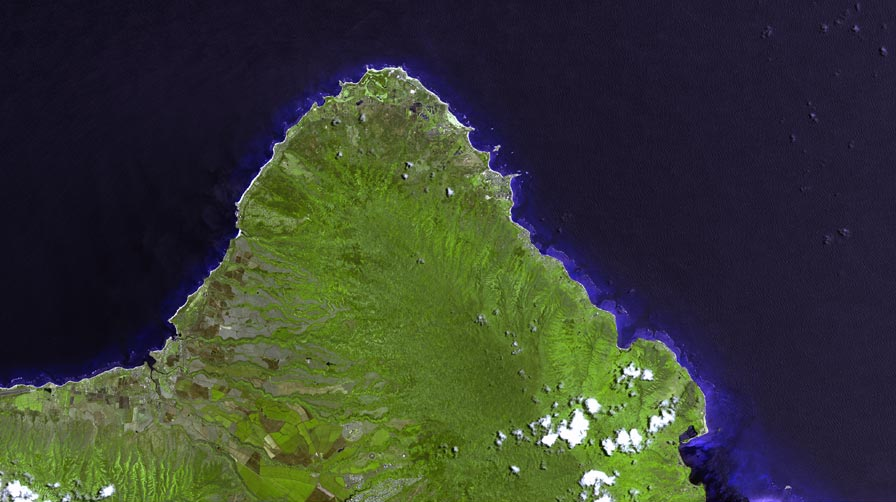 The raw satellite imagery shown in these images was obtain from NASA and/or the US Geological Survey. Post-processing and production by